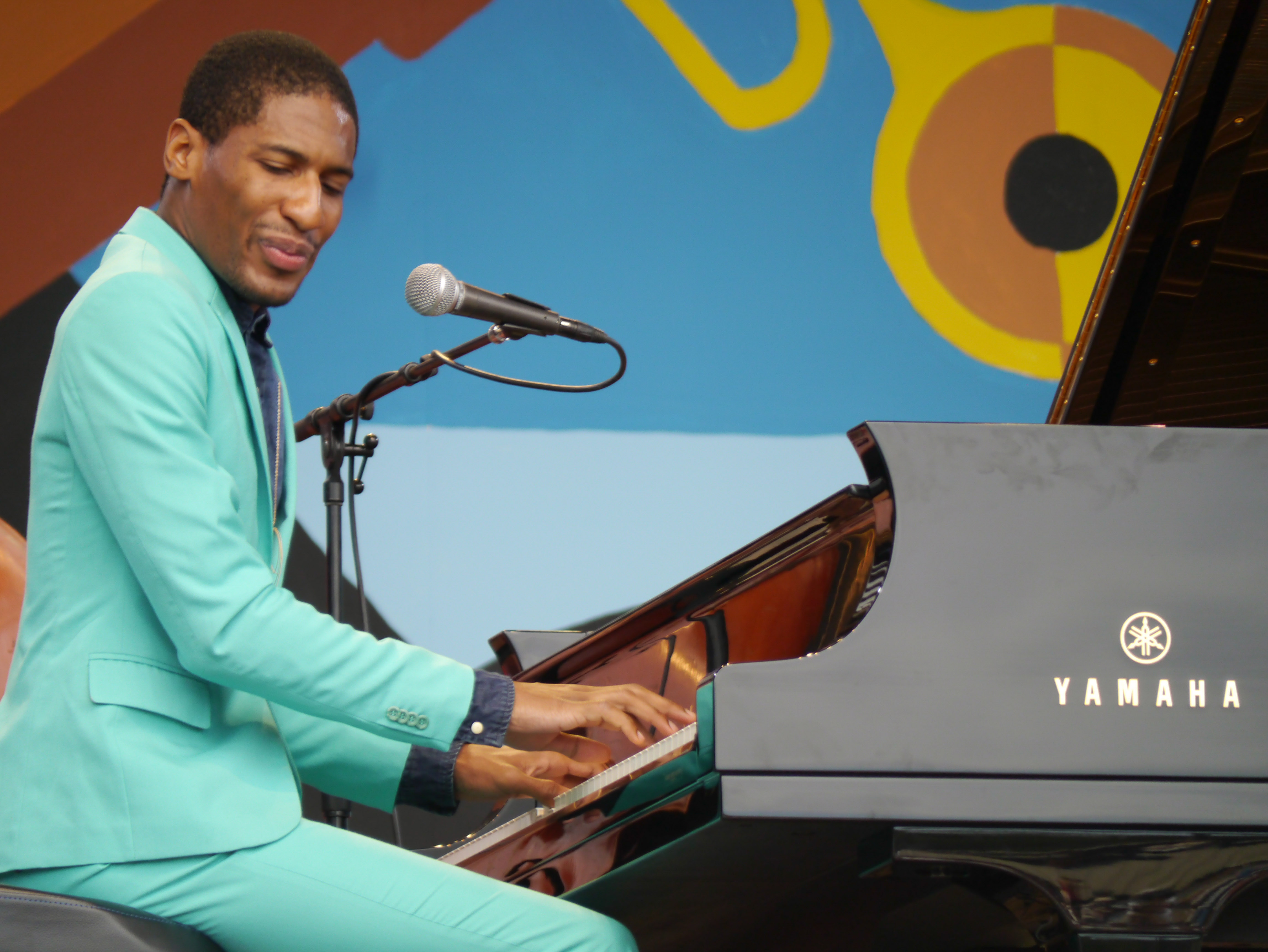 Jonathan Batiste performs at the 2014 Monterey Jazz Festival.